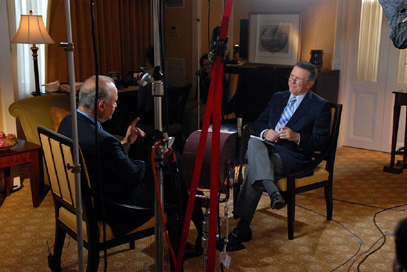 Fred talks to Charlie Gibson